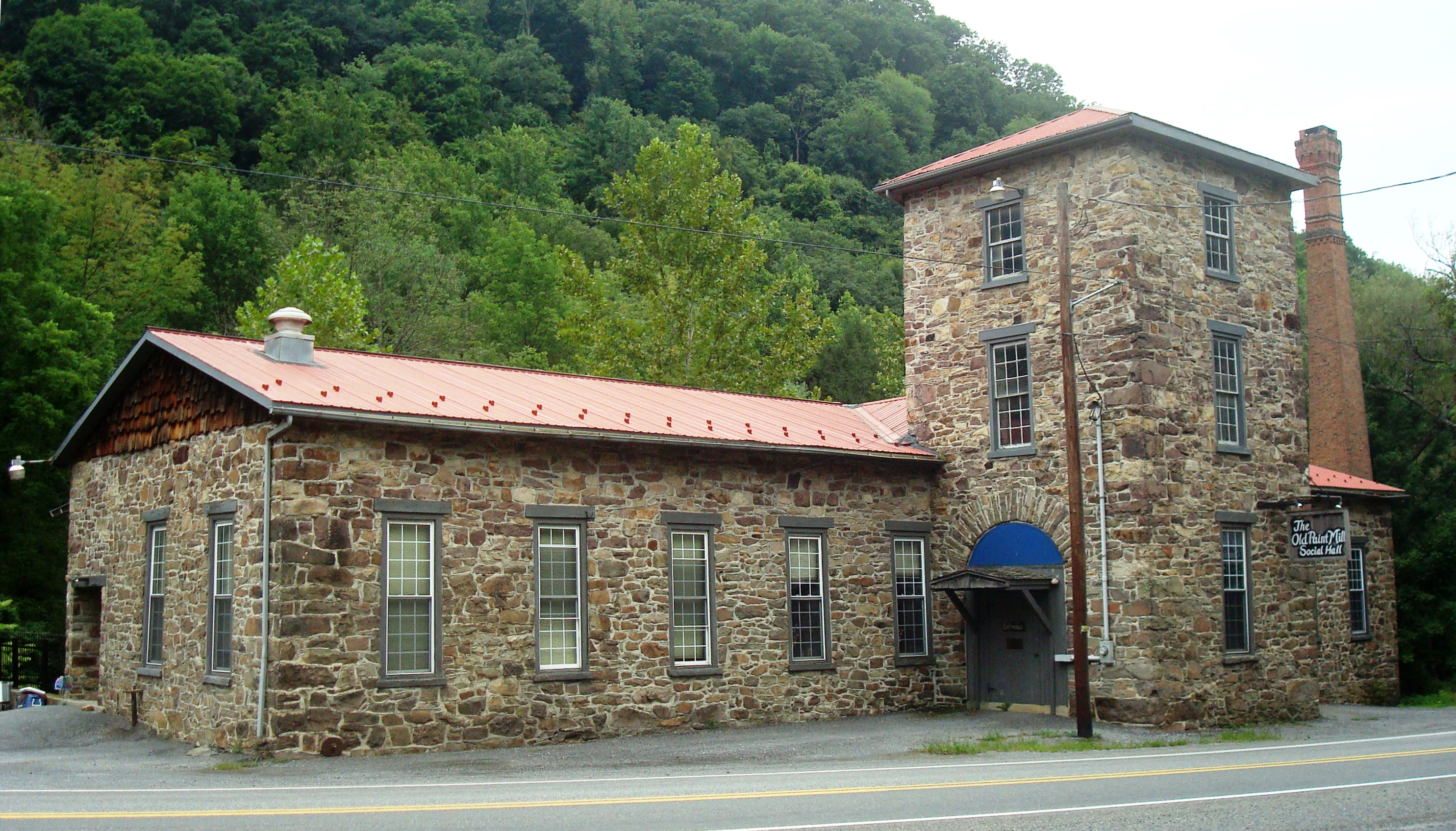 The Old Paint Mill Social Hall on Route 44 in Jersey Shore, Pennsylvania is a banquet hall operated by the P Stone Quarry Company. (Source: [1])